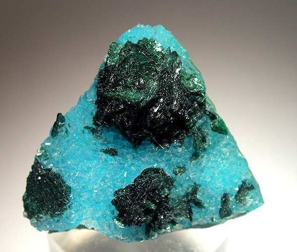 Malachite, Quartz, Chrysocolla Locality: Bagdad Mine (Bagdad Copper Corp. Mine; Cyprus Bagdad Copper County Mine), Bagdad, Eureka District, Yavapai County, Arizona, USA (Locality at ) Gorgeous specimen of this assemblage which is classic for the locality, though very rare on the market since they were mined some time ago and few came out. This one features an ISOLATED rosette of primary malachite xls to 7mm in size. The cluster itself is just over 1 cm. The overall aesthetics are striking an the lustre on the malachite is BETTER in person and this is a competition-level thumbnail! 2.8 x 2.5 x 0.9 cm